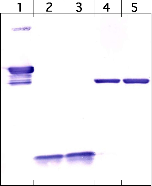 Image by uploader I added some lane numbers. JWSchmidt 06:32, 23 Mar 2004 (UTC)